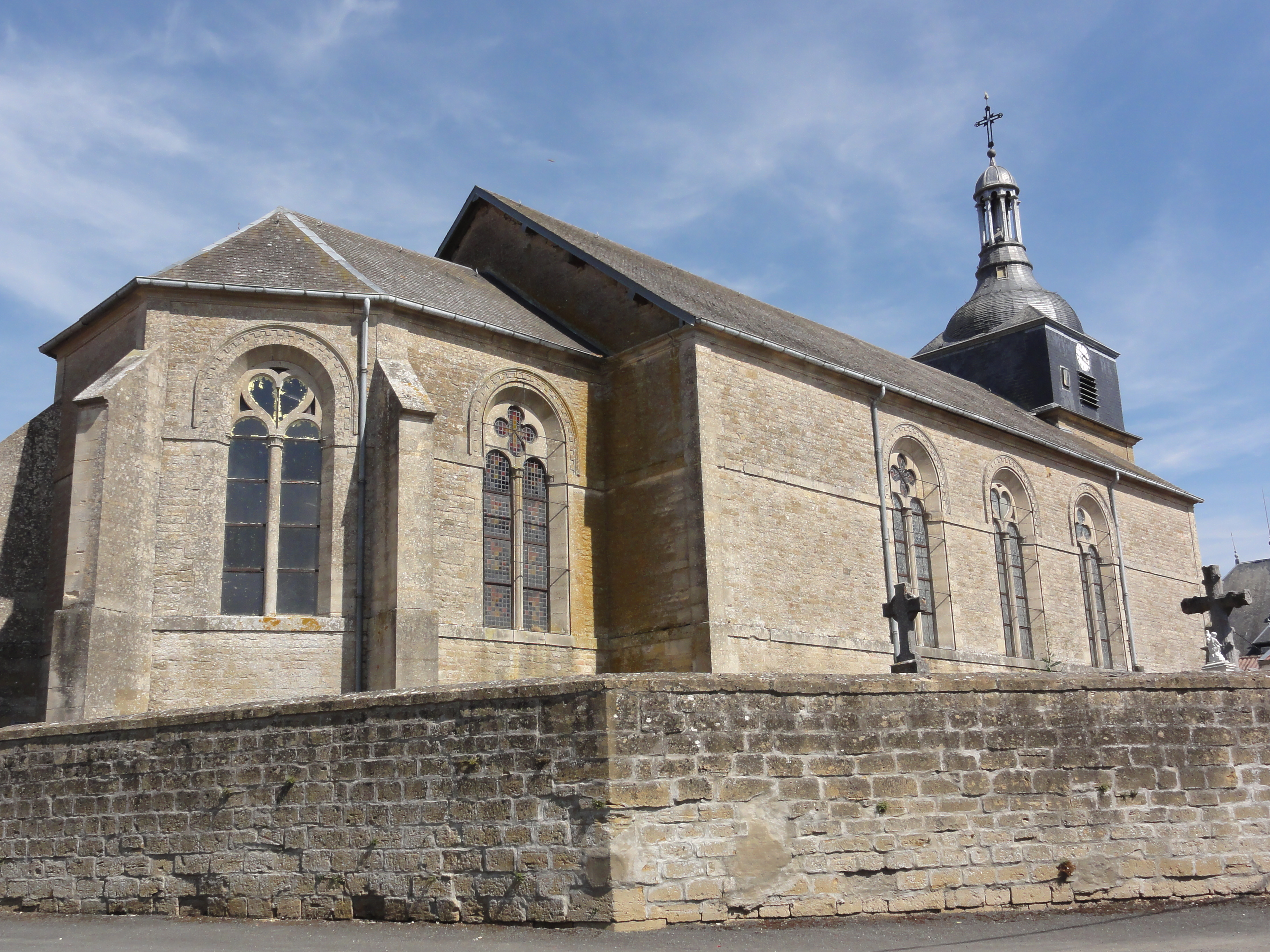 Sorbey (Meuse) église